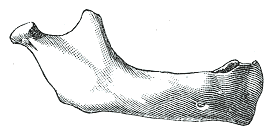 The mandible at birth (side view).